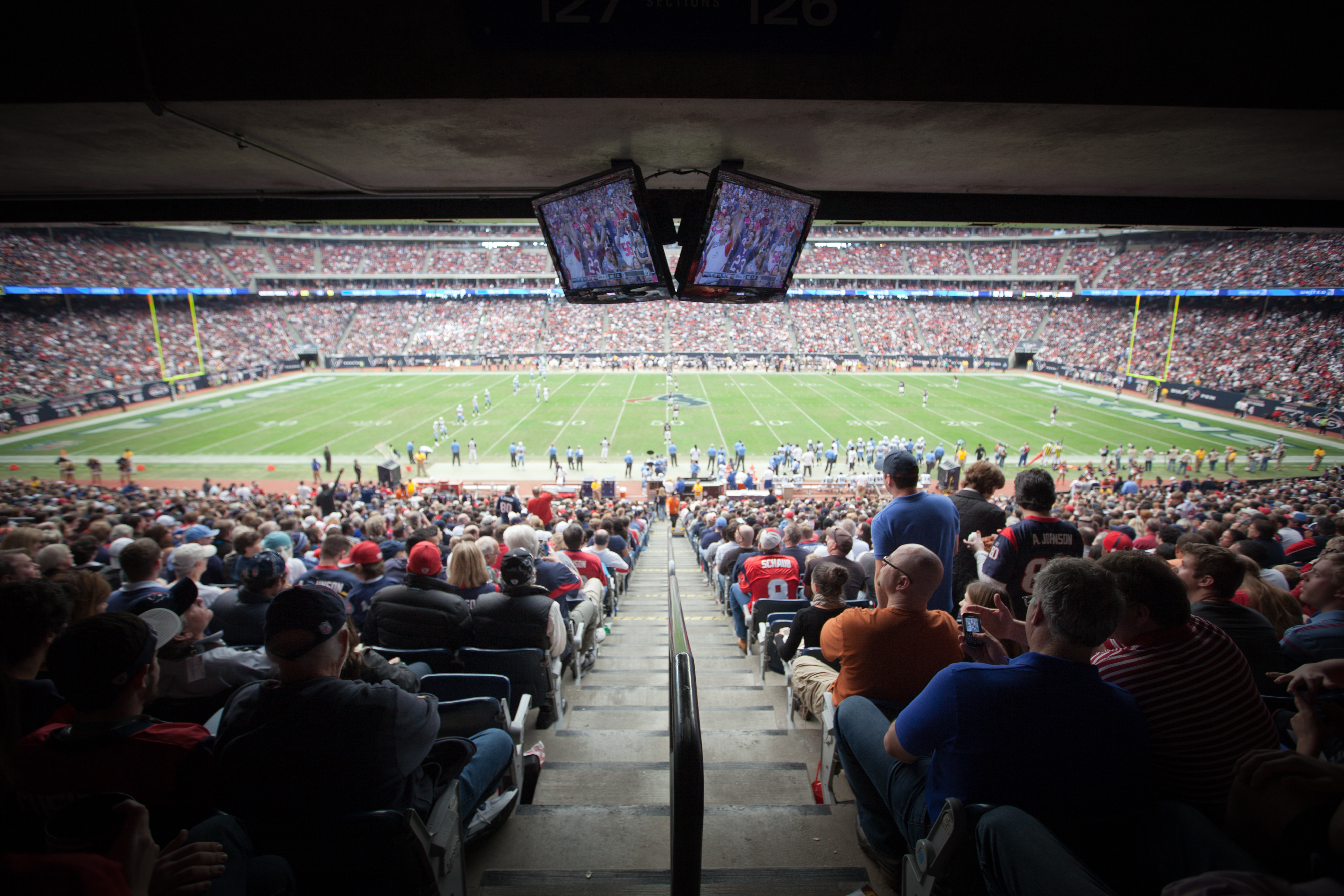 Houston Texans vs Tennessee Titans, Reliant Stadium